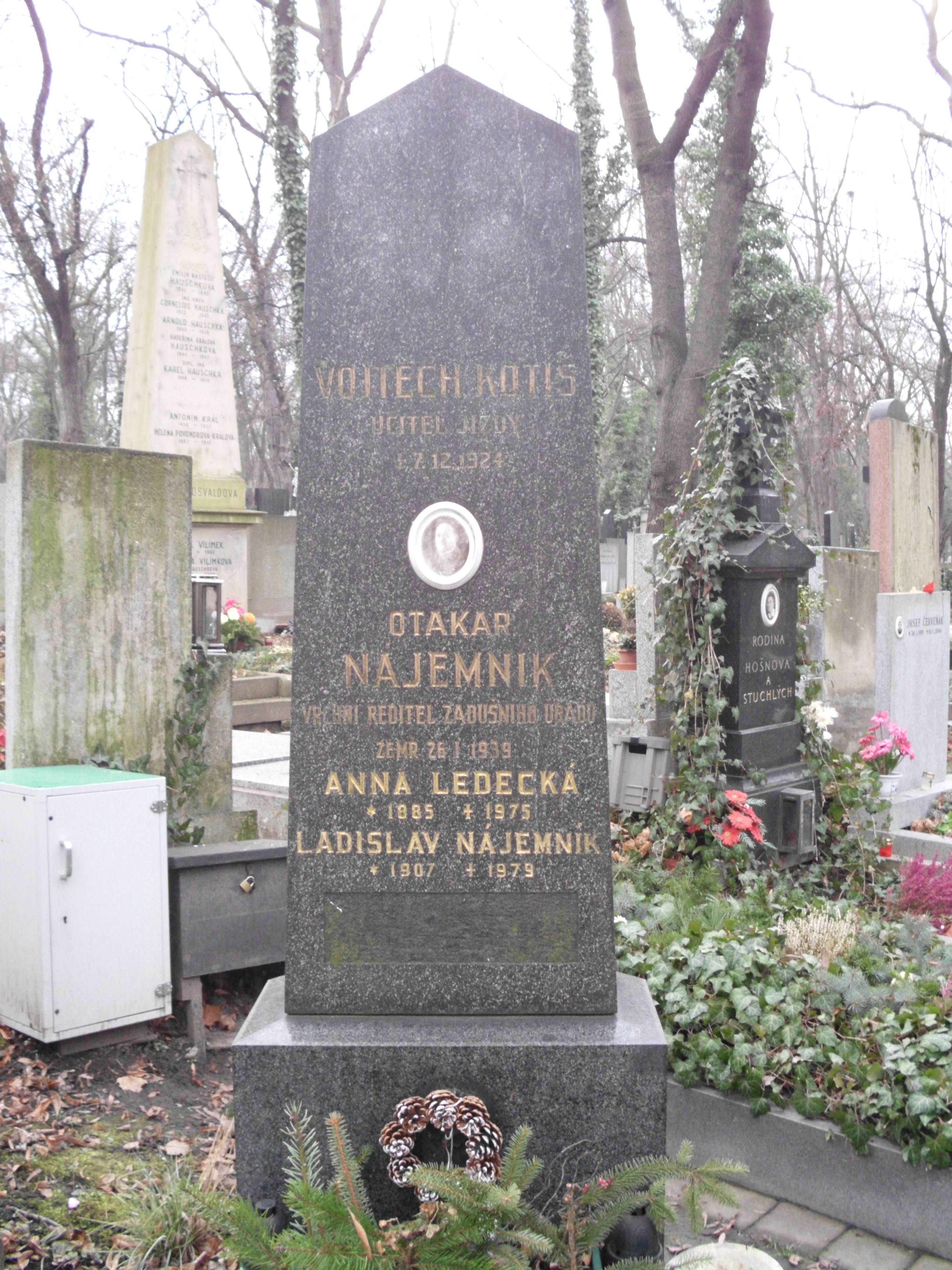 Tombstone of Otakar Nájemník (1872-1939), low-ranking Czech public servant and politician, at Olšany Cemetery in Prague, part VII, section 10.